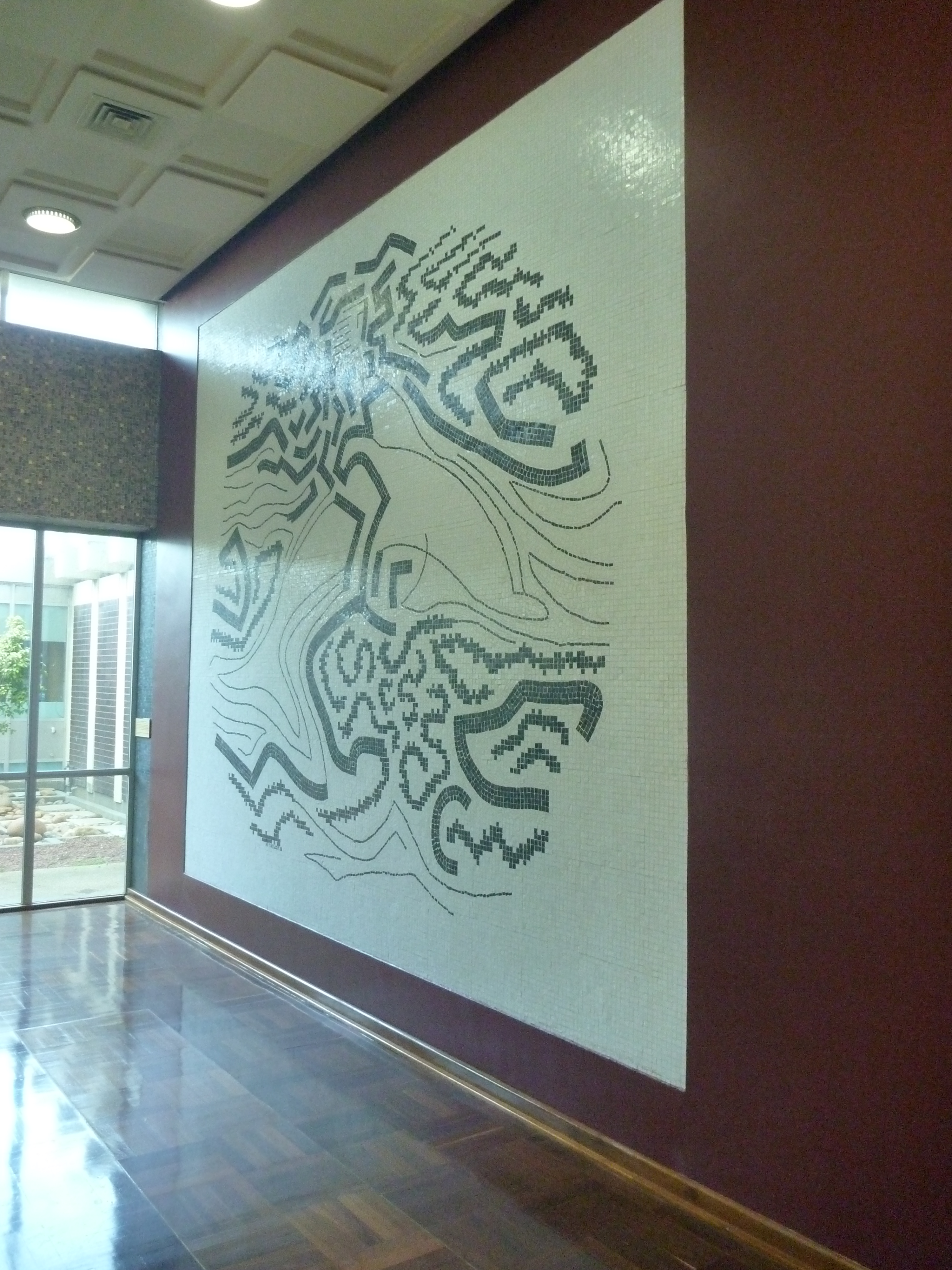 Howard Taylor mosaic in the foyer of the Fremantle Ports building.